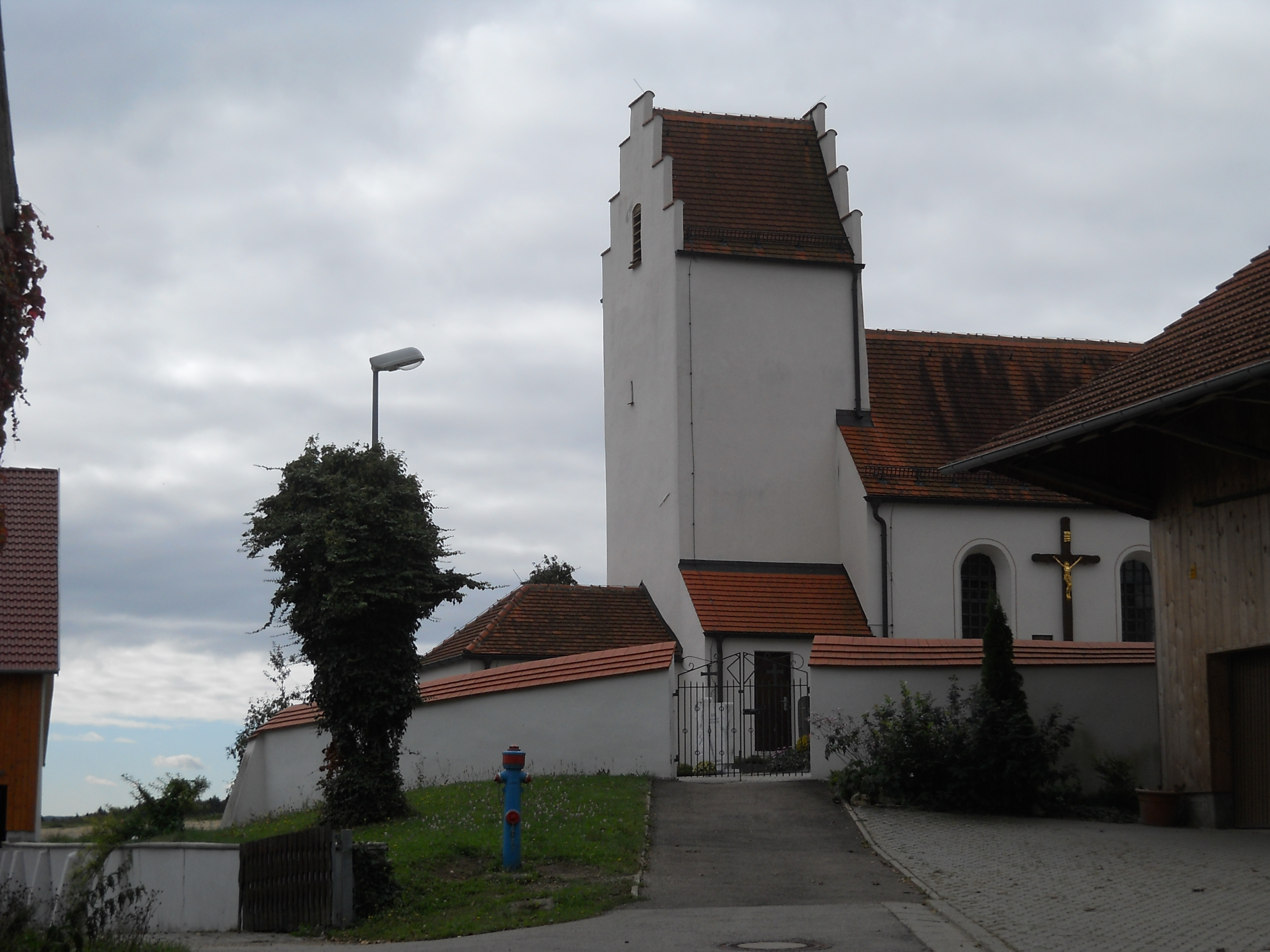 Kirche in Megmannsdorf, Ortsteil von Markt Altmannstein im oberbayerischen Landkreis Eichstätt